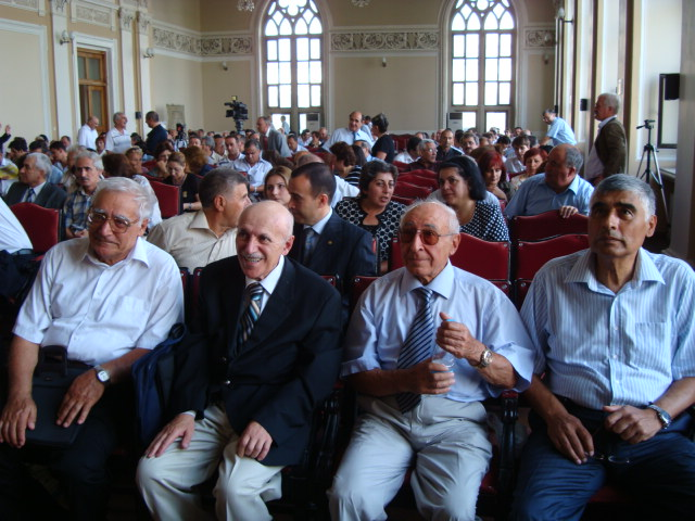 Məlik-Baxış Babayev_8